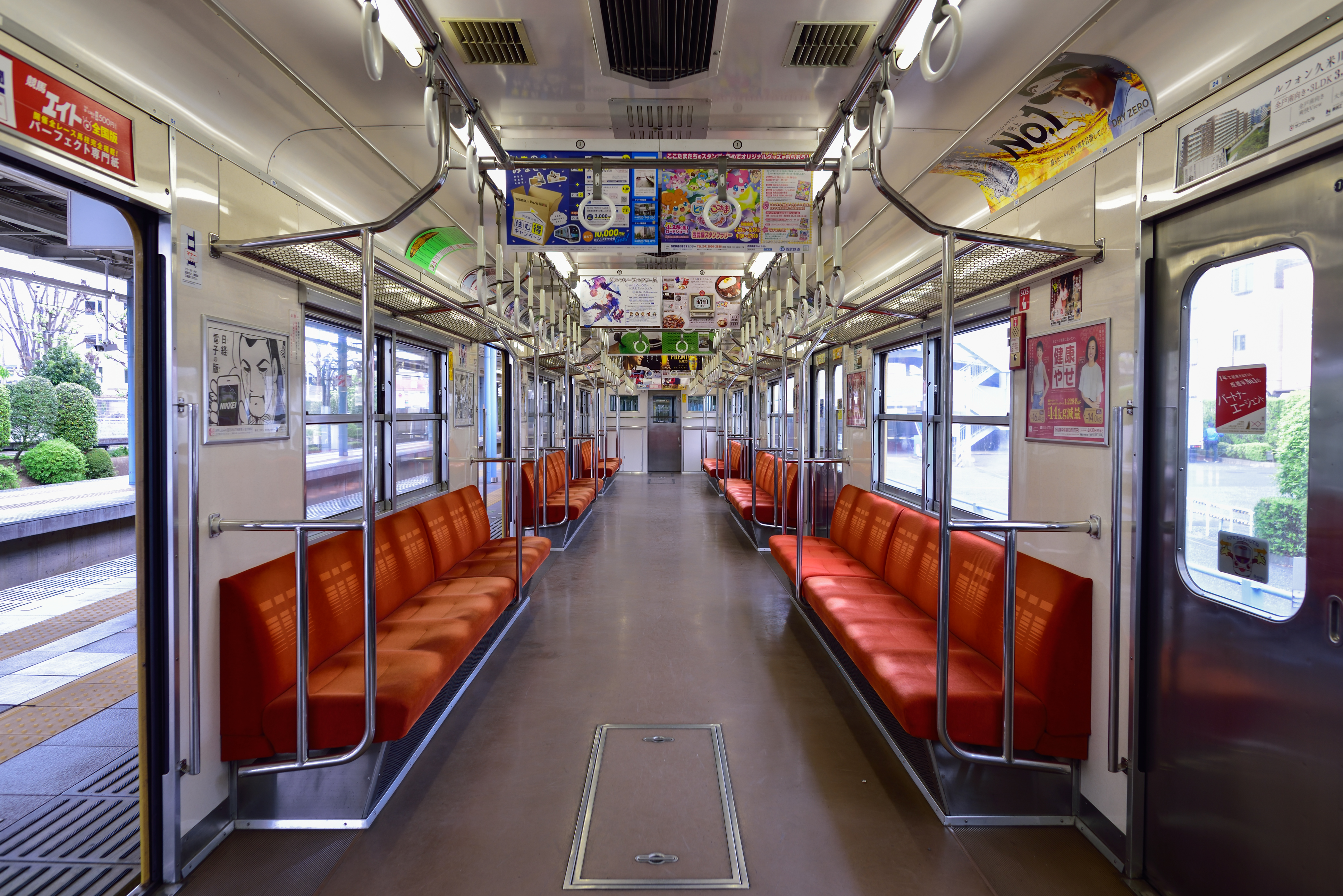 The interior of Seibu Railway 2000 series EMU car 2401